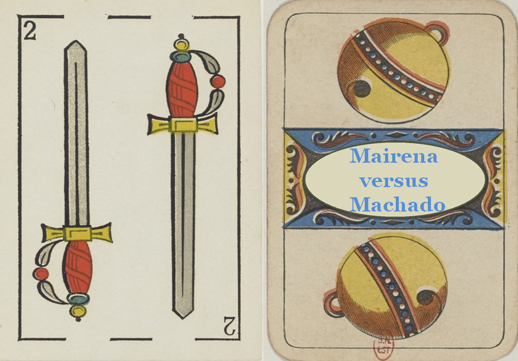 Illustration for the article devoted to Juan de Mairena, apocryphon of Antonio Machado